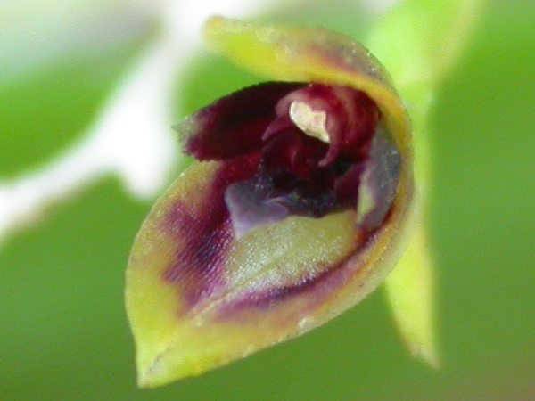 Arthrosia floribunda